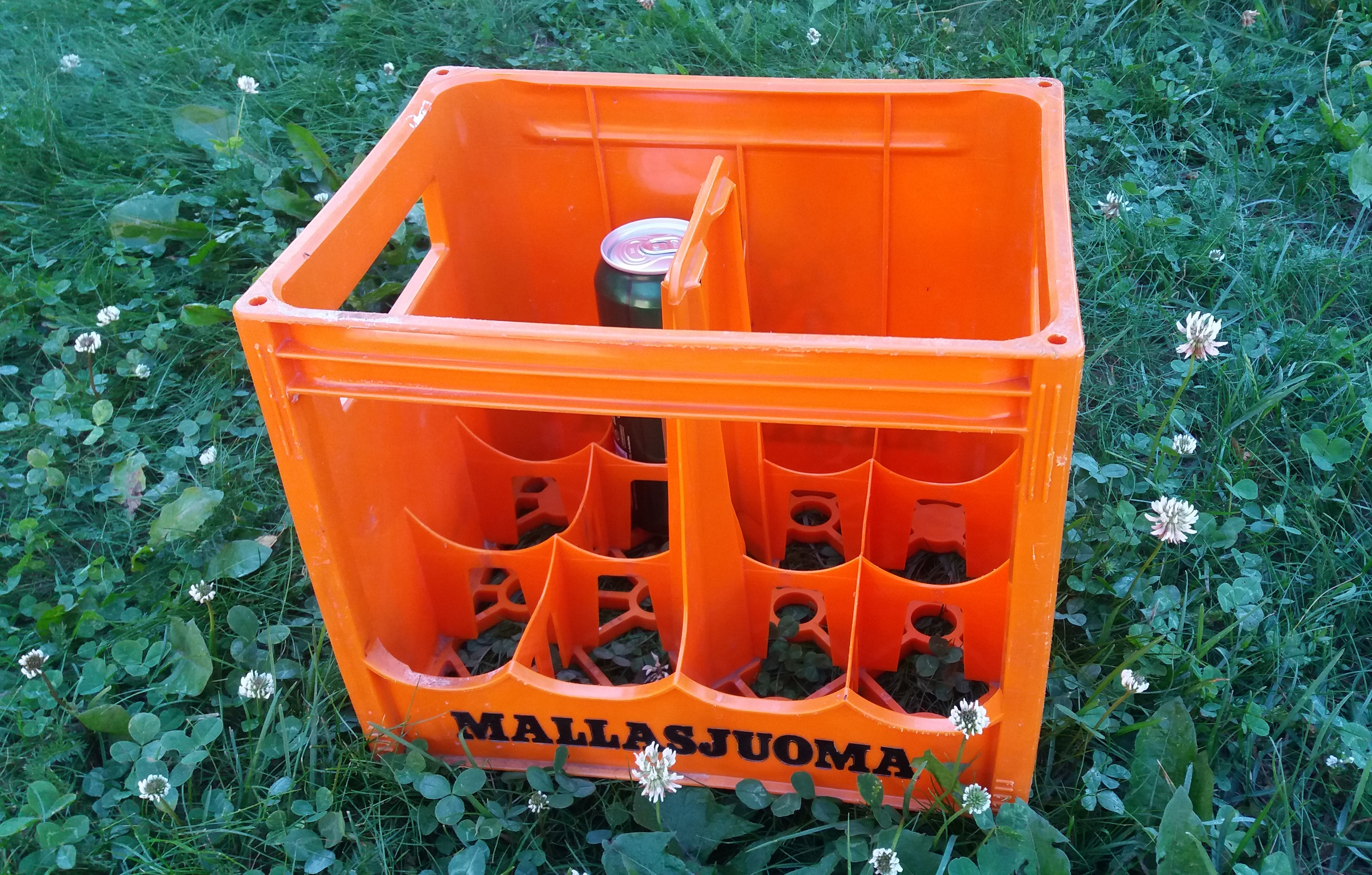 "Lahtikko" bottle crate used in 1978-1989 by Mallasjuoma Ltd, Lahti, Finland.